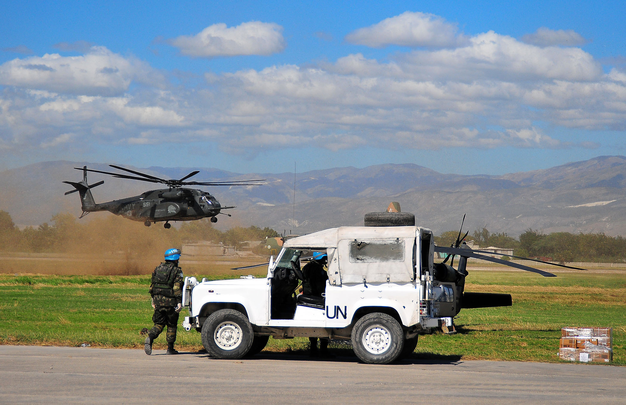 A U.S. Navy MH-53E Sea Dragon helicopter from Helicopter Mine Countermeasures Squadron 14 lands as United Nations soldiers arrive to help distribute supplies to earthquake survivors in Port-au-Prince, Haiti, Jan. 16, 2010. The aircraft carrier USS Carl Vinson (CVN 70) and Carrier Air Wing 17 are conducting humanitarian and disaster relief operations as part of Operation Unified Response after a 7.0 magnitude earthquake caused severe damage near Port-au-Prince, Haiti, Jan. 12, 2010.